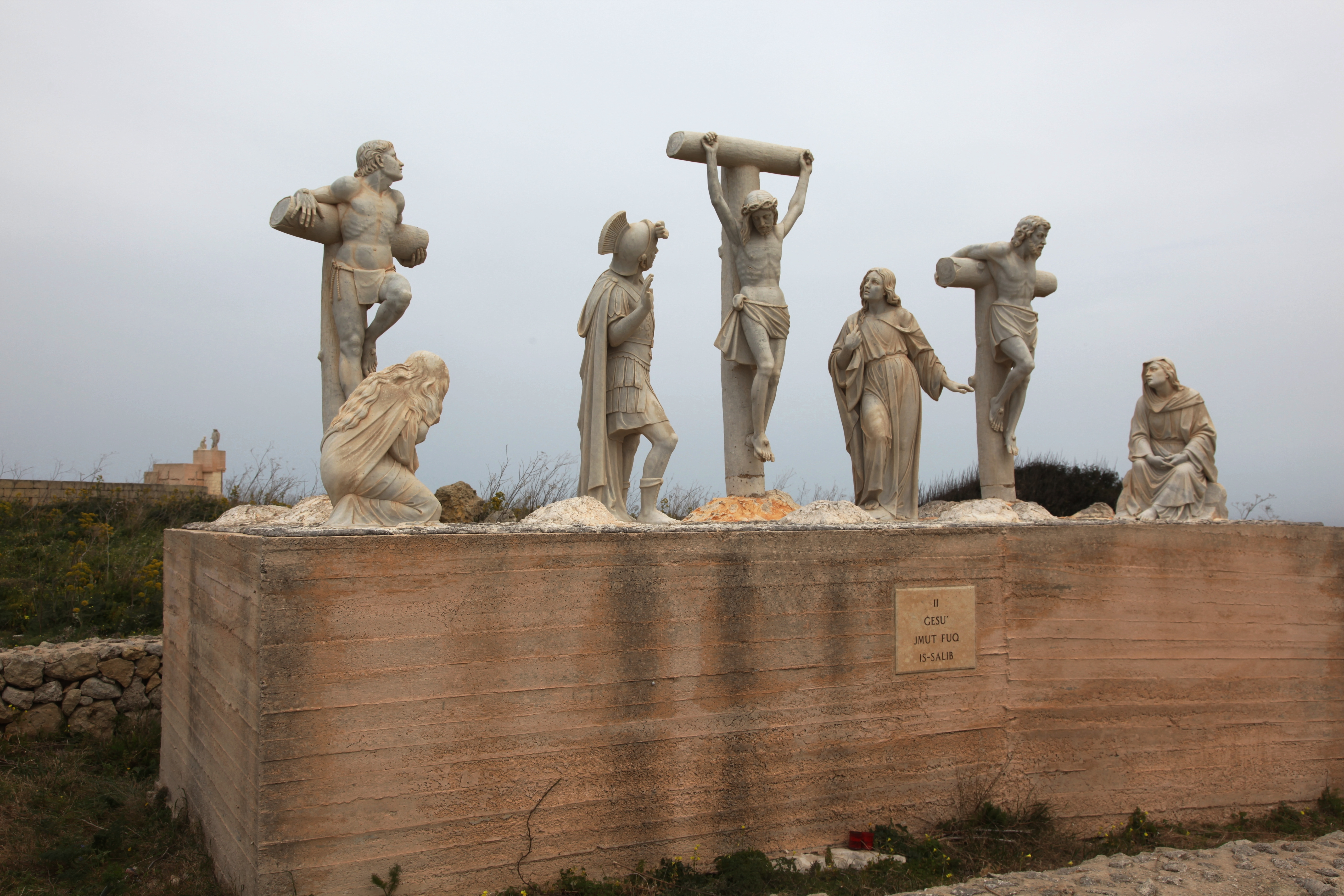 The Way of the Cross of Ta Pinu Sanctuary station 11